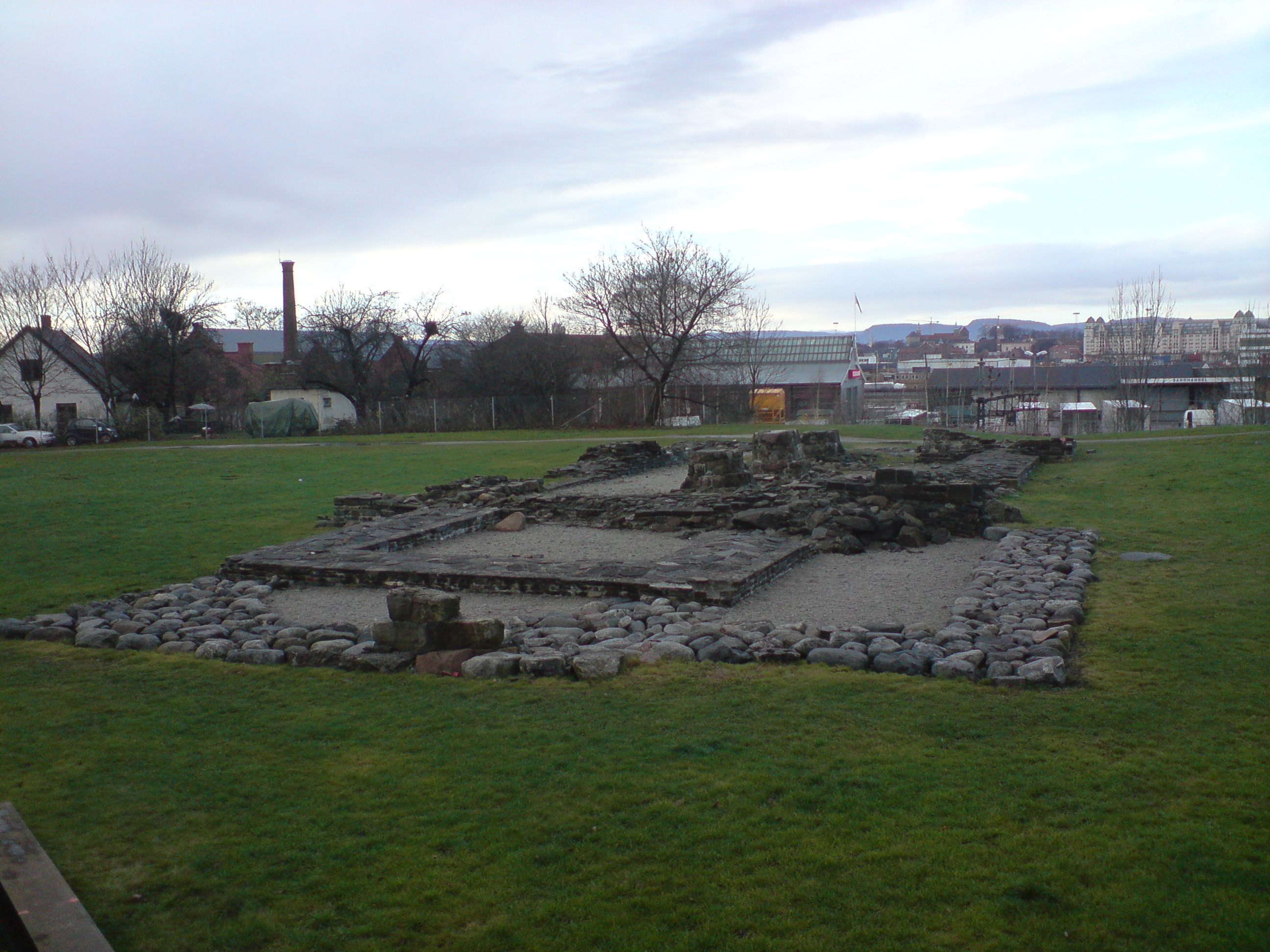 Ruins of the medieval Clemens-church in Oslo